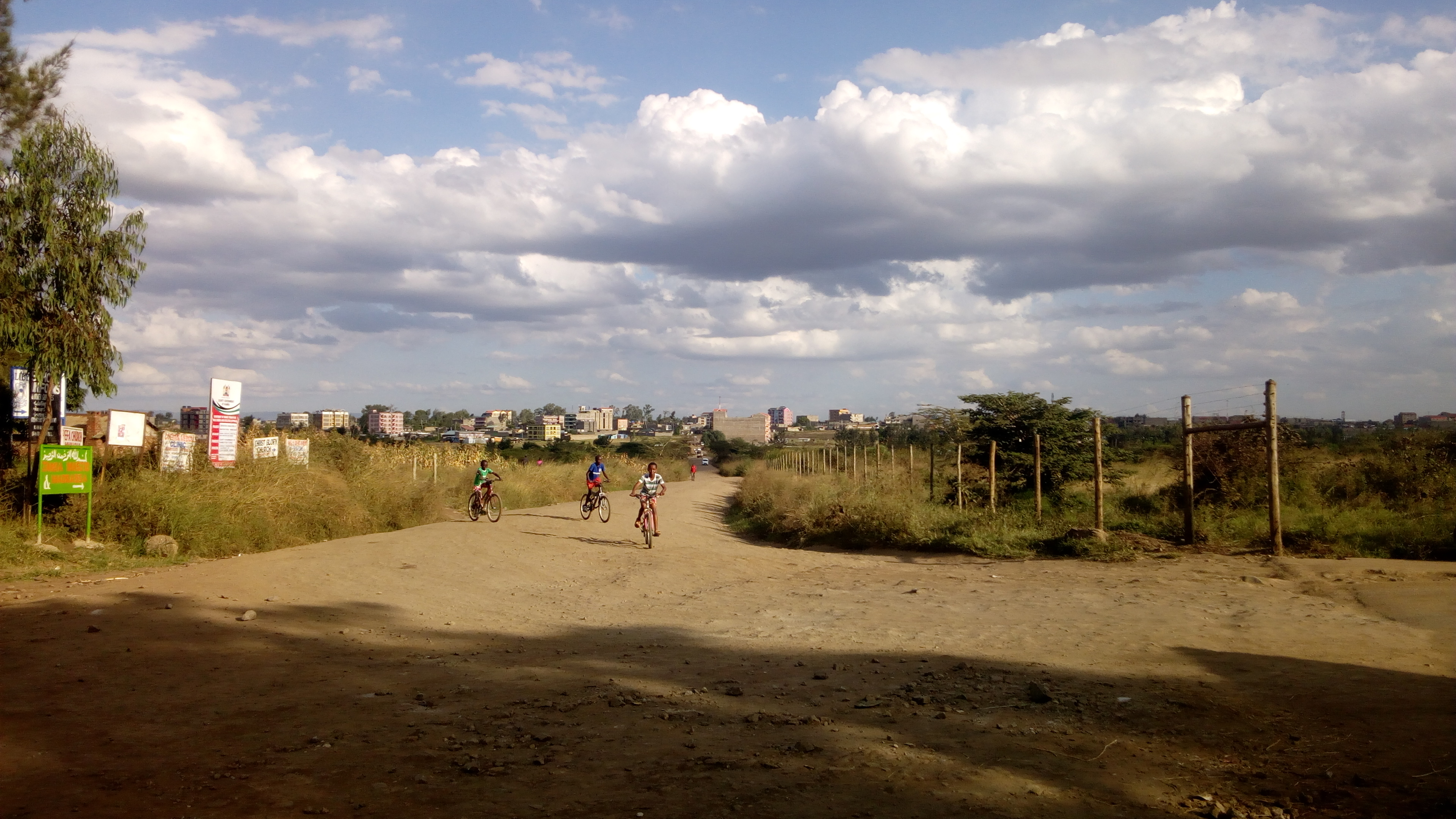 Mwihoko is an estate in Nairobi's Kahawa region. Here, children on holiday compete to ride bikes in the afternoon sun. This is an image with the theme "Africa on the Move or Transport" from: Kenya